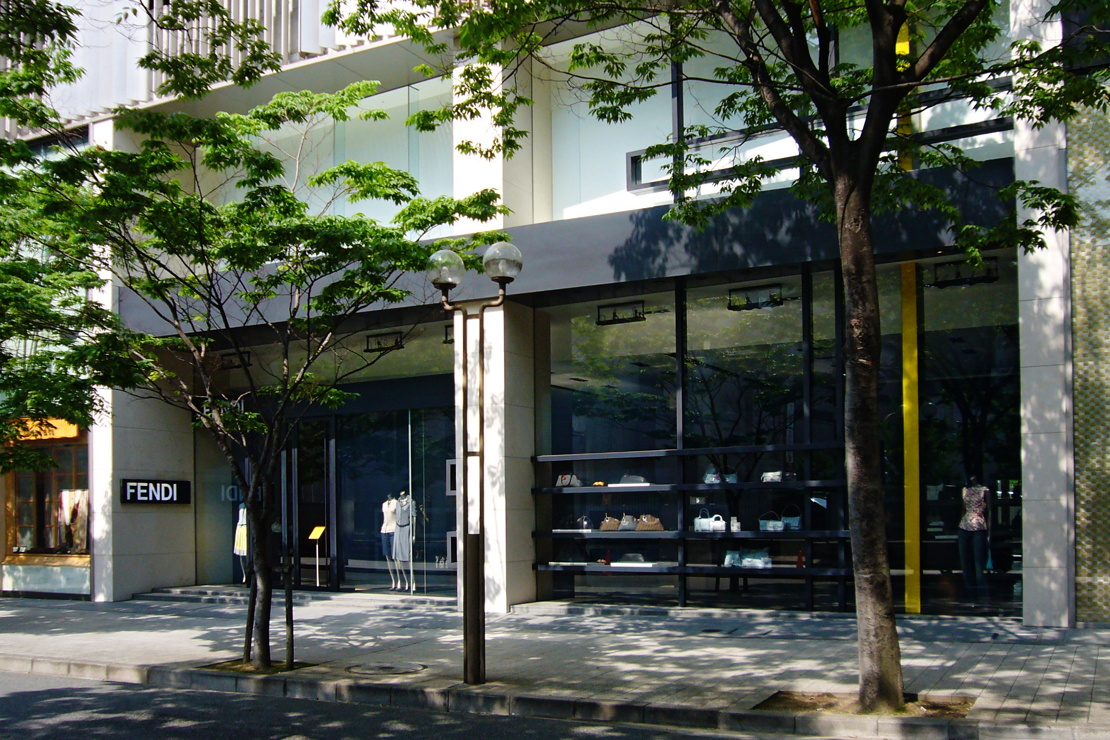 FENDI in LVMH Building, Kyukyoryuchi (Former Foreign Settlement of Kobe), Kobe, Hyogo prefecture, Japan